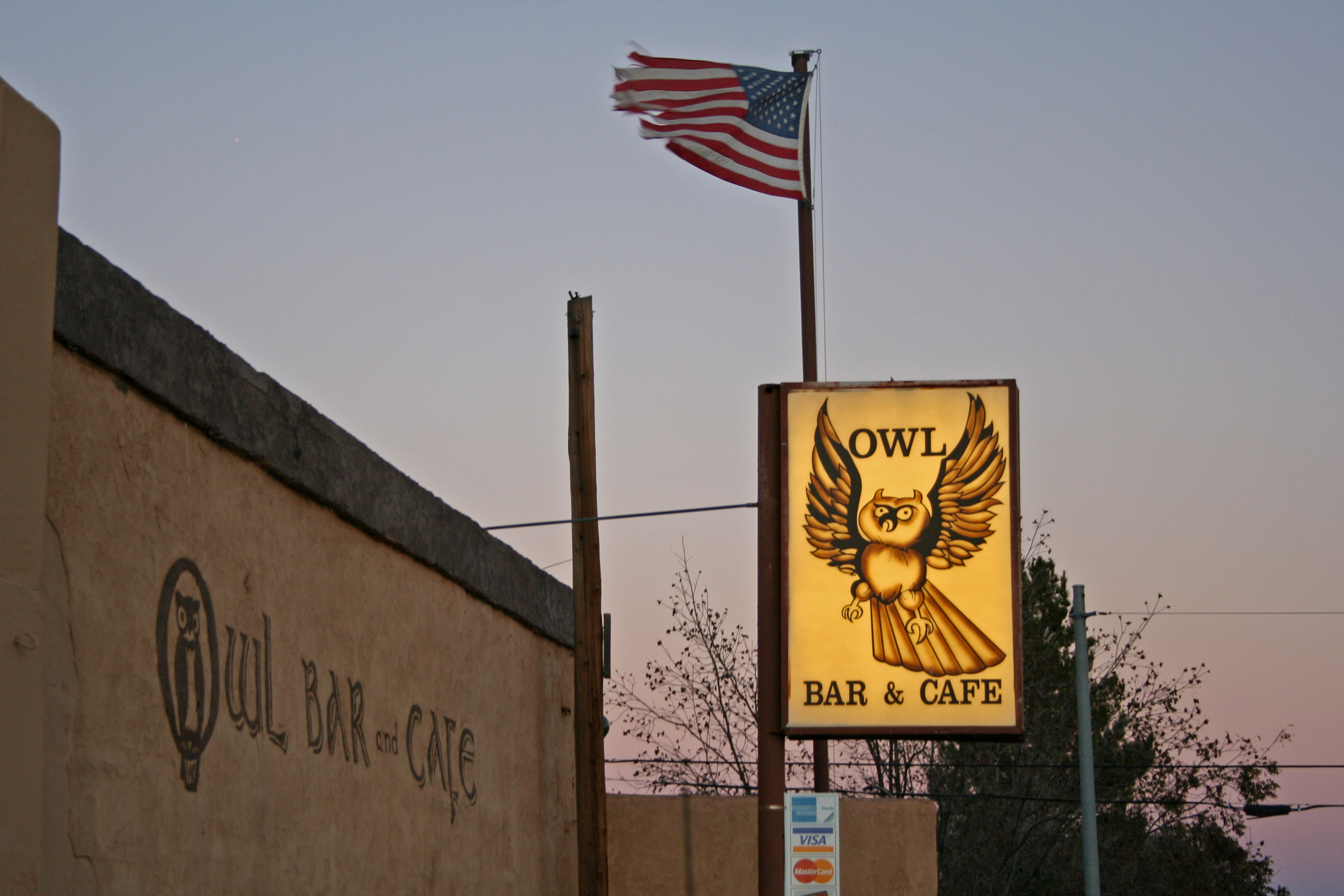 Front signage of the Owl Bar and Cafe in Santa Fe, New Mexico, USA